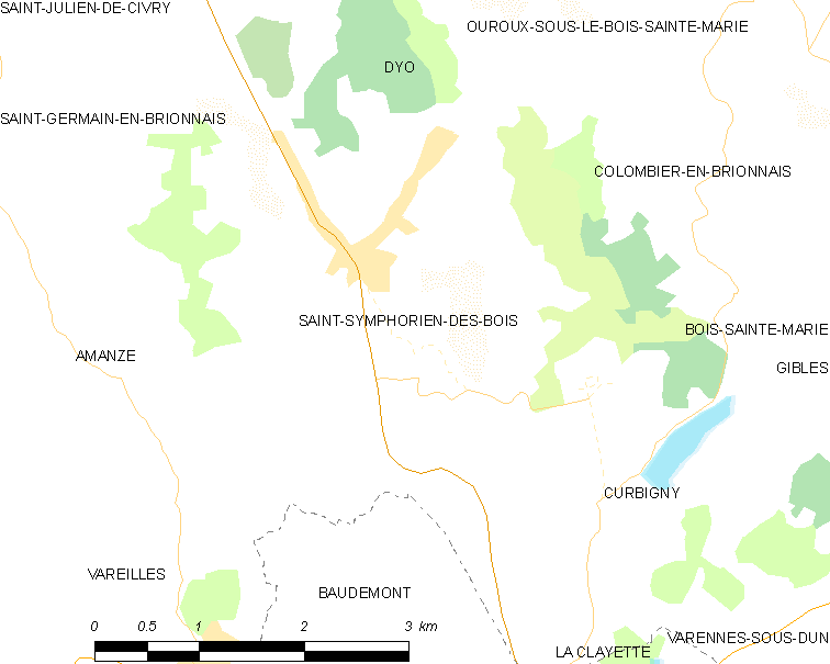 Map of French municipality